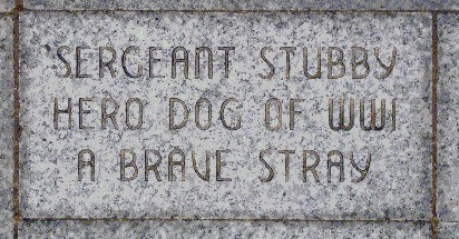 This is a photo I took on October 23, 2006.